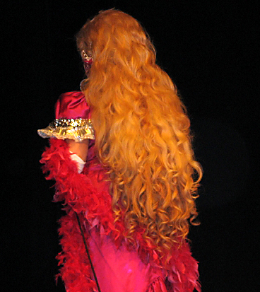 Villas in Poznań, Poland